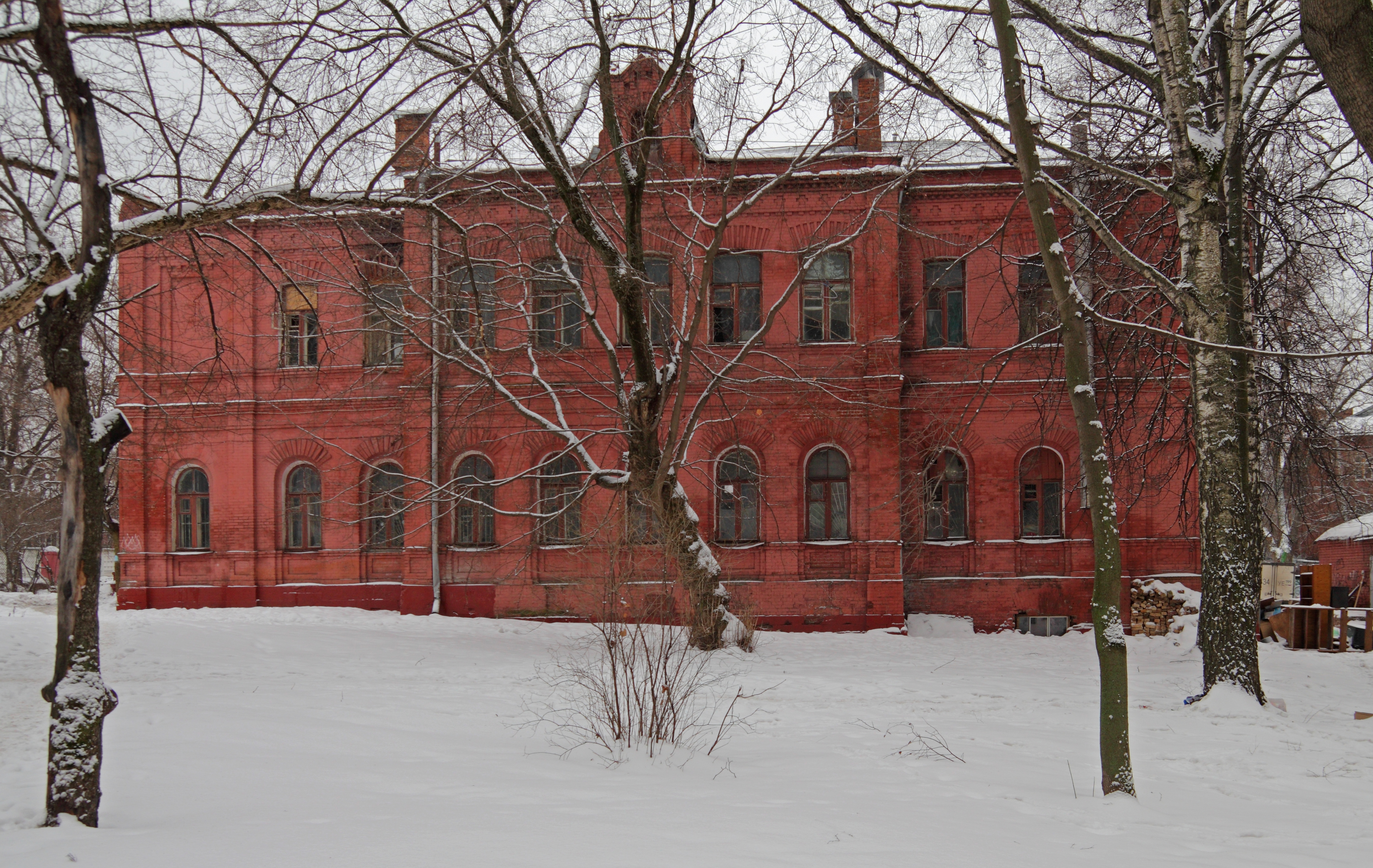 Some buildings of the former Mikhalkovo Estate in Moscow, Russia.